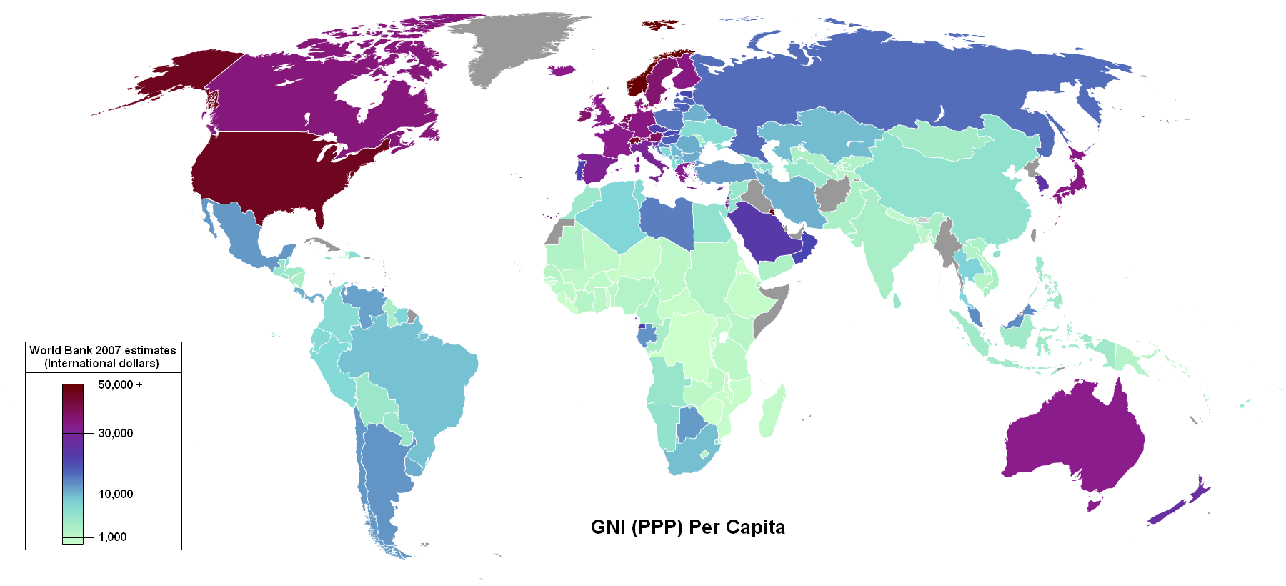 Gross National Income (PPP) Per Capita in 2007 based on World Bank estimates. References for this description (or part of this) or for the depiction in the file are not provided. Reason: Relevant discussion may be found on the talk page.